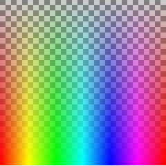 The RGBA sample image composited atop checkerboard, as most browsers do not do this themselves any more.